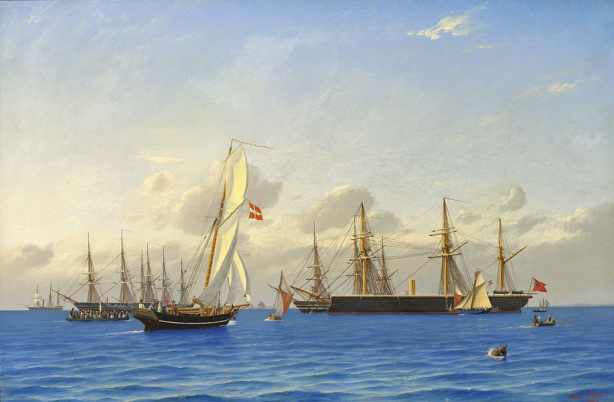 The experts at Bruun Rasmussen apparently had a hard time with this painting. For some reason they decided that it was the British Royal Yacht visiting Copenhagen, presumably connected to the wedding of Princess Alexandra to The Prince of Wales in March 1863. But no, the Royal Yacht was a side-wheeler, and it picked up the princess at Antwerpen and did not go to the Baltic at the time. But in the last week of August 1862, a squadron of the Channel Fleet, commanded by rear-admiral Smart, stayed at Copenhagen. The black ship in the center is HMS Defence and other large vessels included the flagship HMS Revenge and HMS Trafalgar. The Danish King Frederik VII visited the ships on August 30, 1862. Extracts from The Times about the Channel Fleet. Danish newspaper Fædrelandet describing the arrival of the squadron (in Danish).